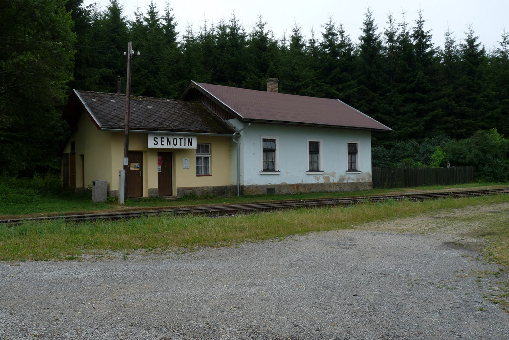 Rail station Senotin.